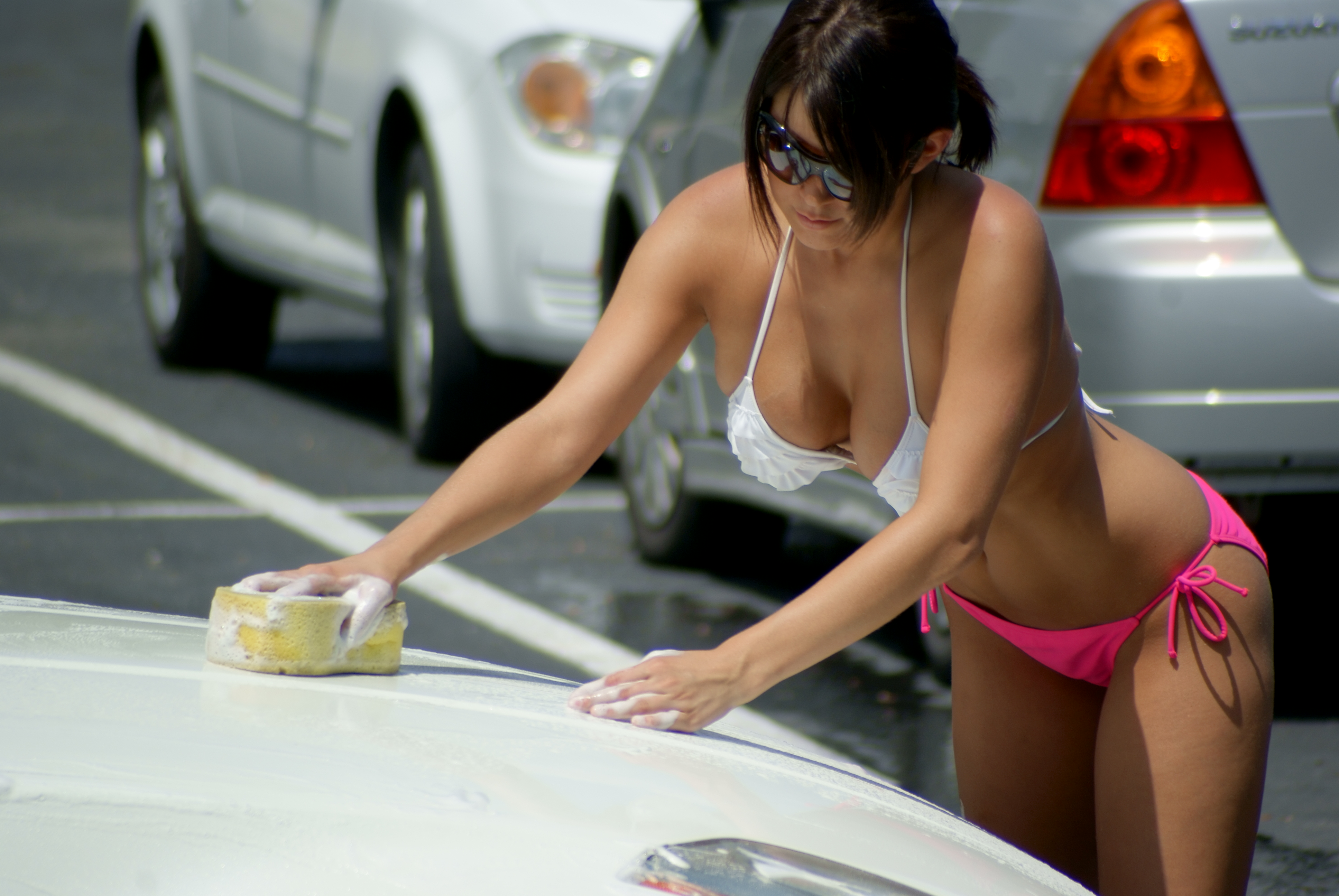 Twin Peaks Austin Bikini Car Wash